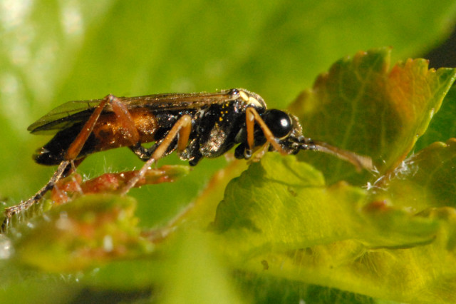 Ametastegia equiseti from Commanster, Belgian High Ardennes .